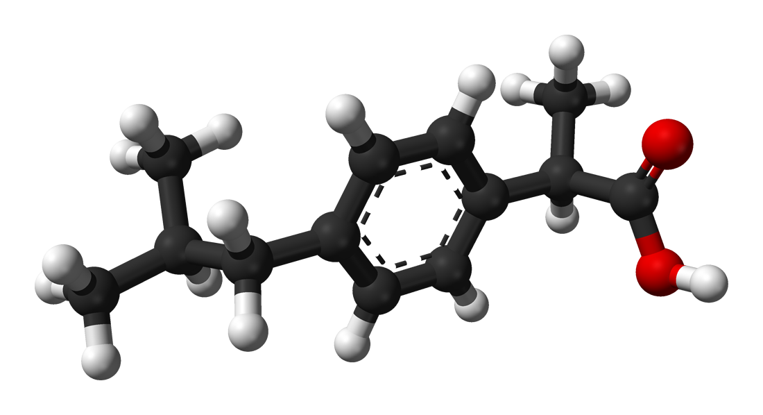 Ball-and-stick model of the (R)-ibuprofen molecule, based on neutron diffraction data from N. Shankland, C. C. Wilson, A. J. Florence and P. J. Cox (1997). "Refinement of Ibuprofen at 100K by Single-Crystal Pulsed Neutron Diffraction". Acta Crystallographica Section C 53: 951-954.